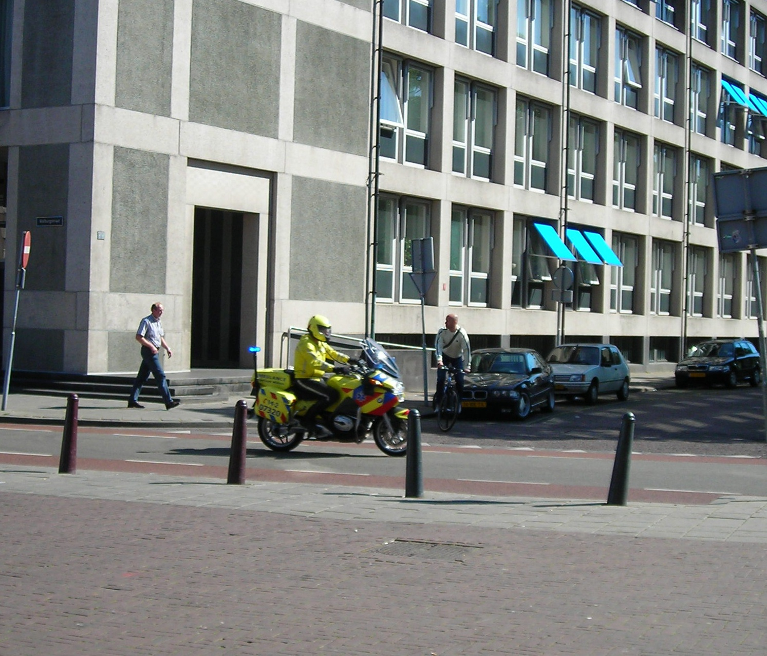 Ambulance motor in Arnhem